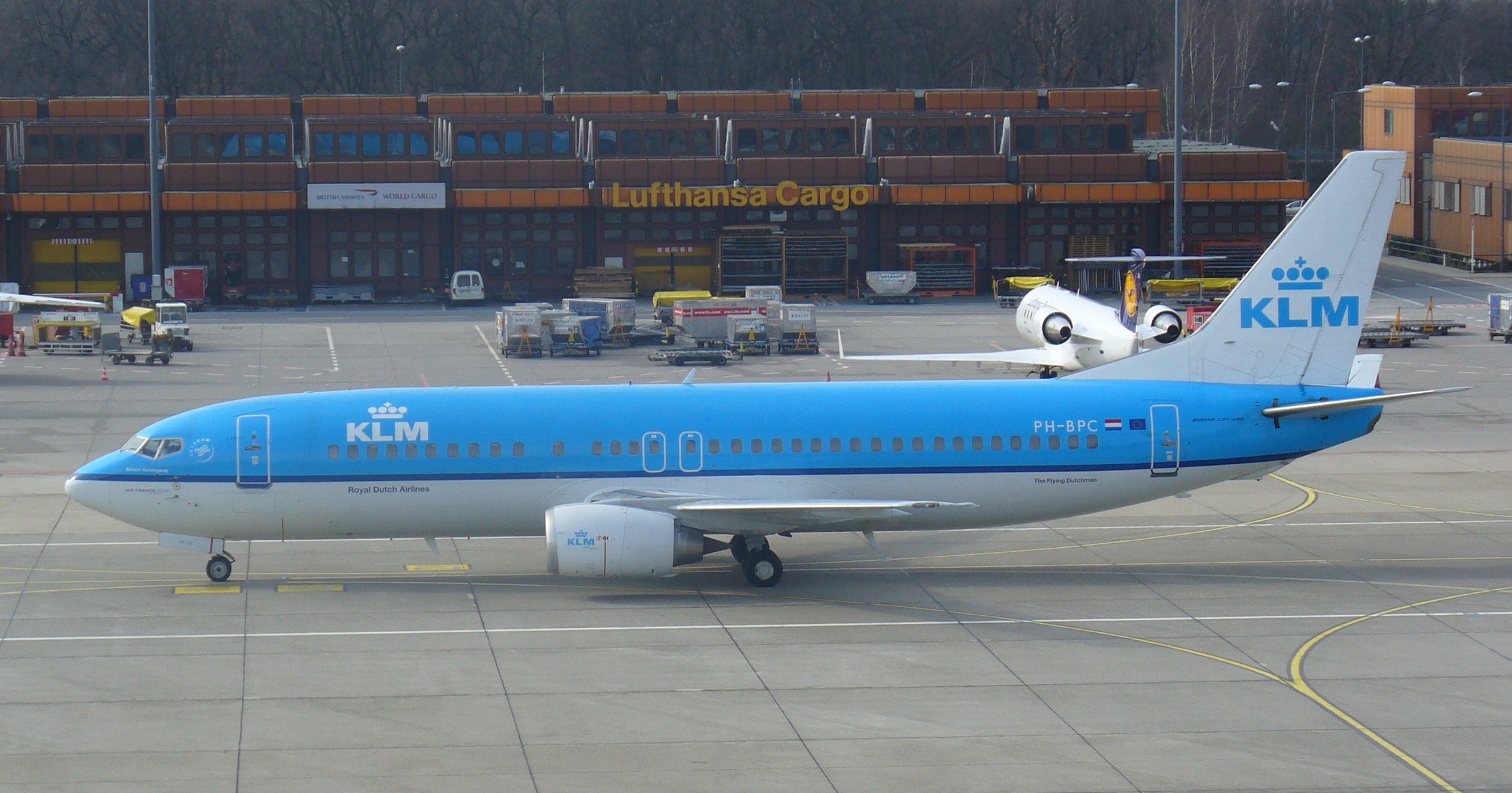 KLM Boeing 737-400 aircraft at Berlin-Tegel Airport